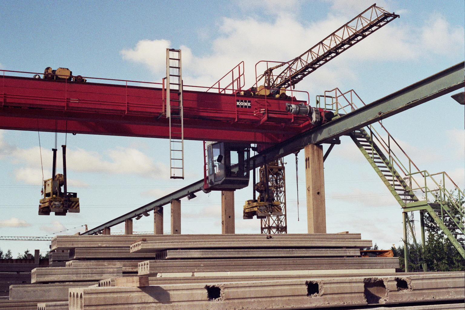 An overhead crane at the factory of Rajaville, a manufacturer of concrete products, in Alppila, Oulu, Finland.